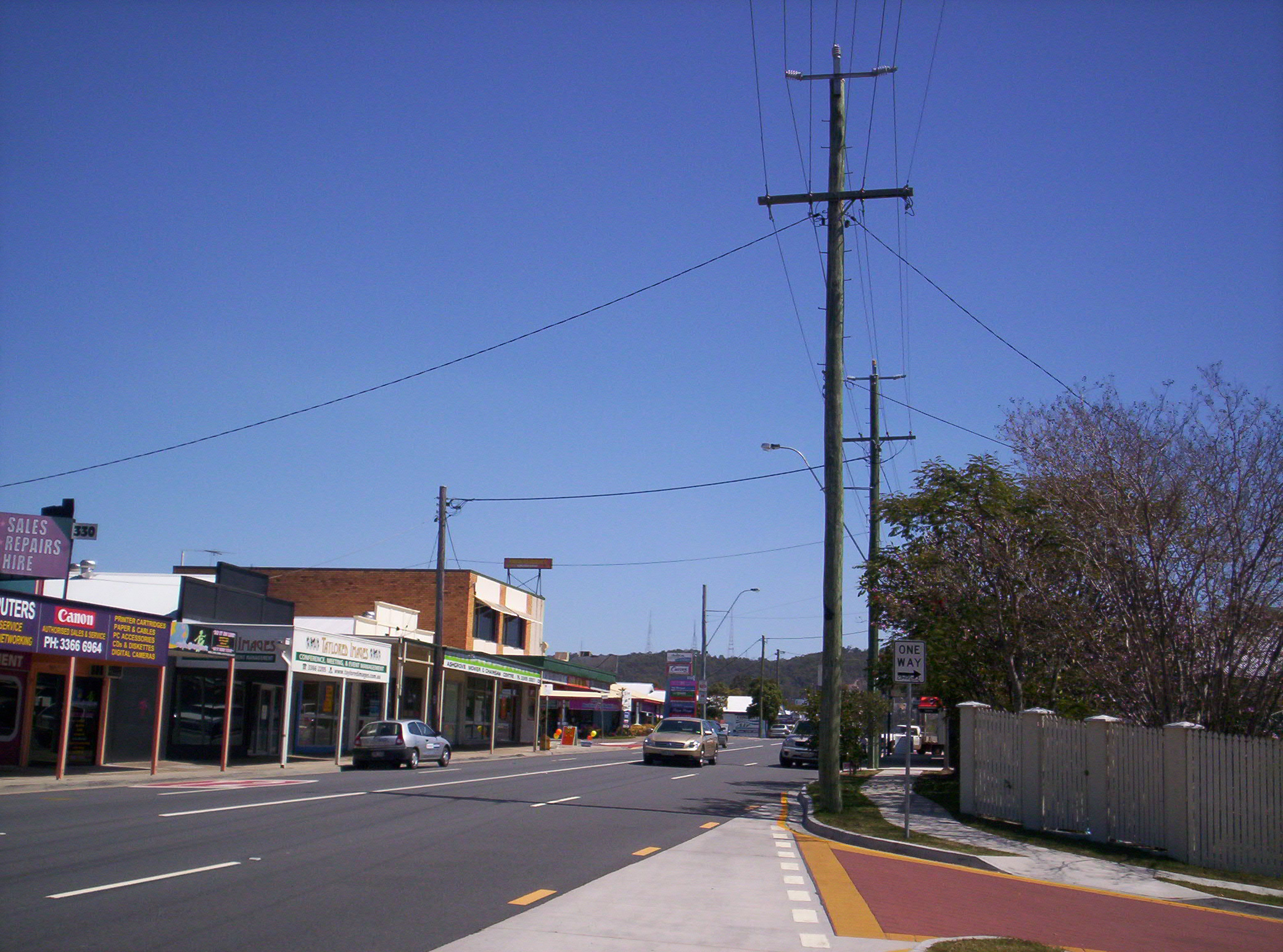 Waterworks Road, Ashgrove, Queensland, Australia.